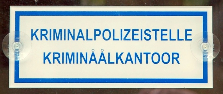 One of German-Frisian bilingual signs at the police station Husum (Schleswig-Holstein, Northern Germany), in German and North Frisian, using the letter å in the North Frisian word "Kriminåålkantoor" ("criminal bureau": office of the criminal investigating department)